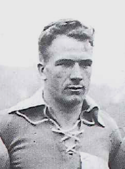 Finnish international player Jarl Malmgren. Cropped from File:FIN-NationalFootballTeam1933.png